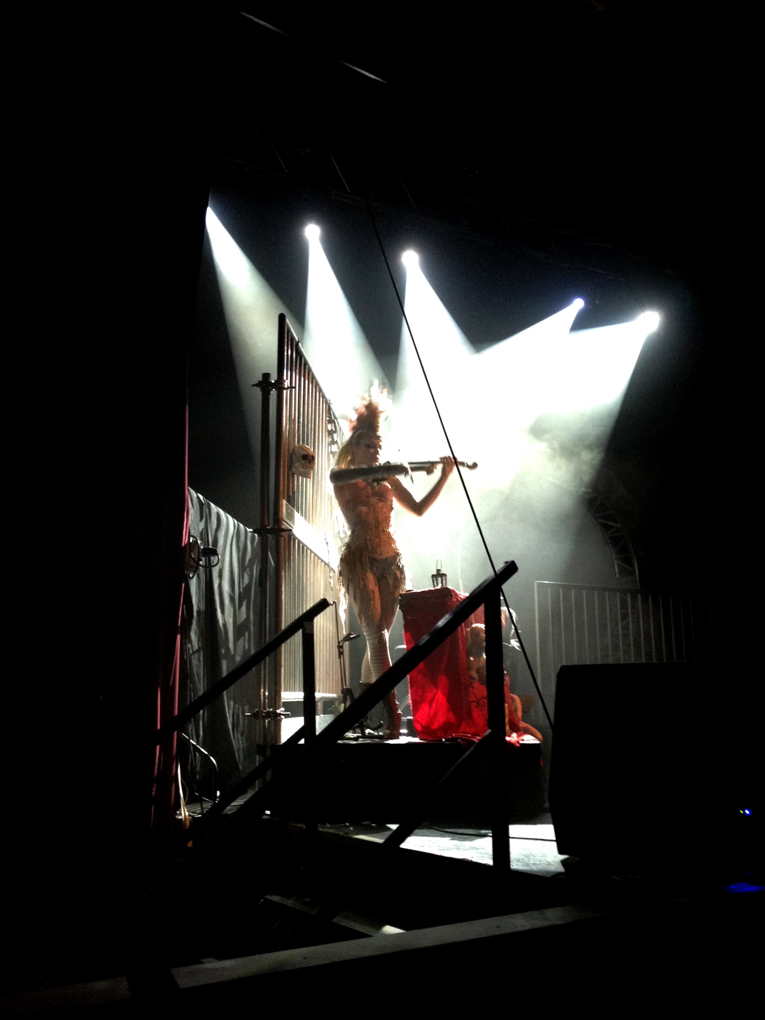 Emilie Autumn performing "Liar" at the HMV Ritz in Manchester, 14 April 2012